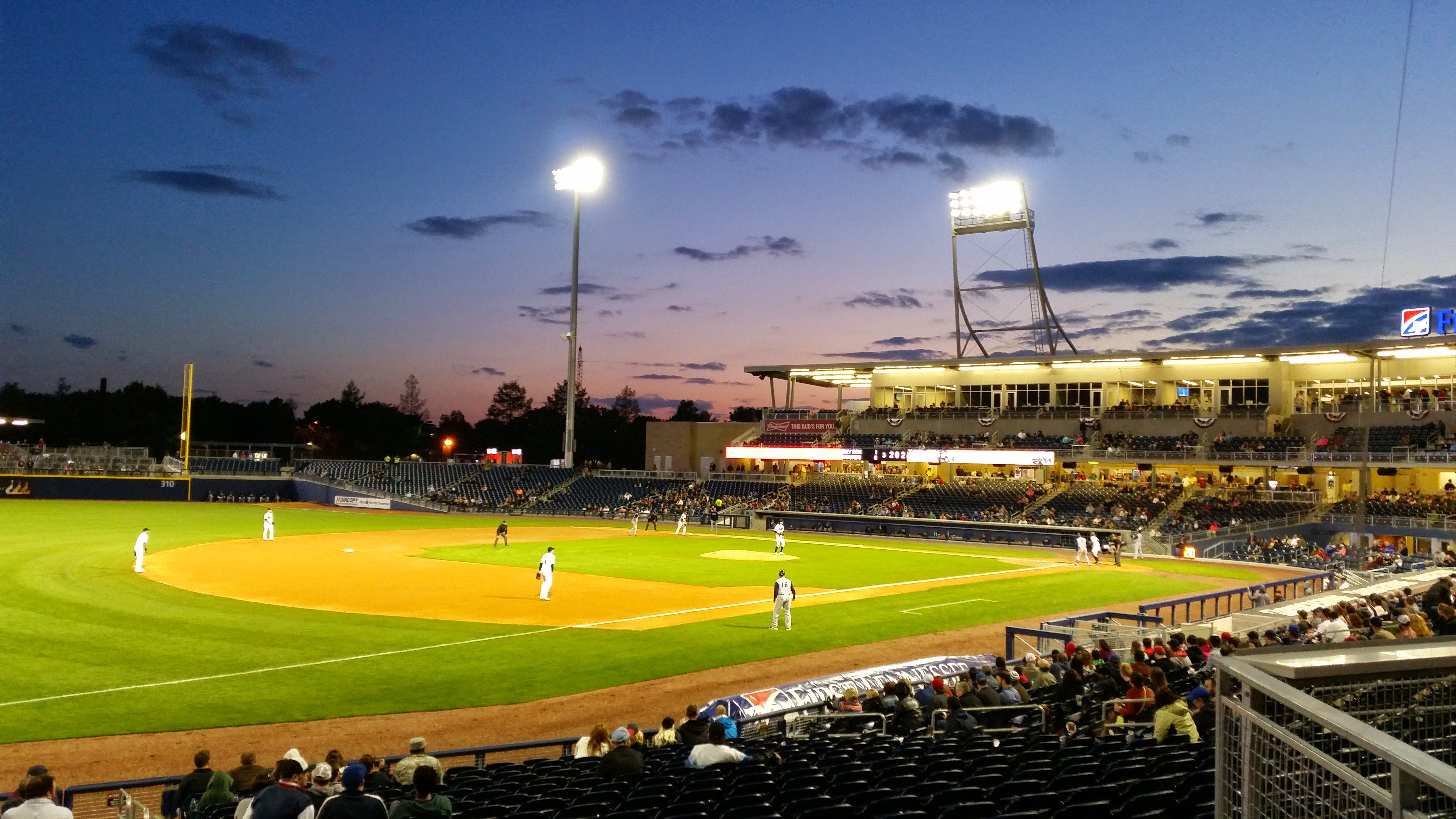 Early season Nashville Sounds game; April 20, 2015